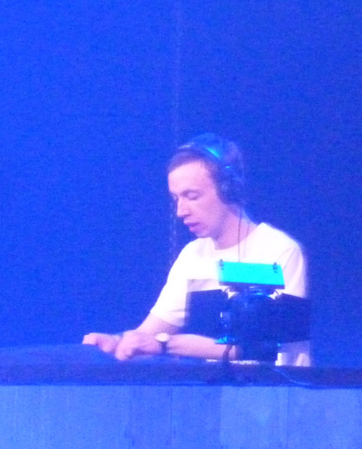 Andrew Rayel during his set @ A State Of Trance 600 Utrecht, 6th April 2013